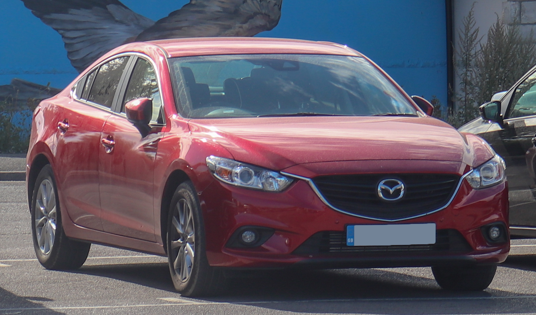 2018 Mazda6 SE-L NAV Diesel Automatic 2.2 Taken in Weymouth, Dorset